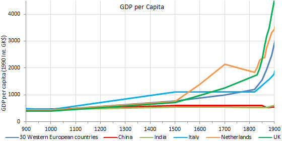 GDP per capita 900-1900 in 1990 int$